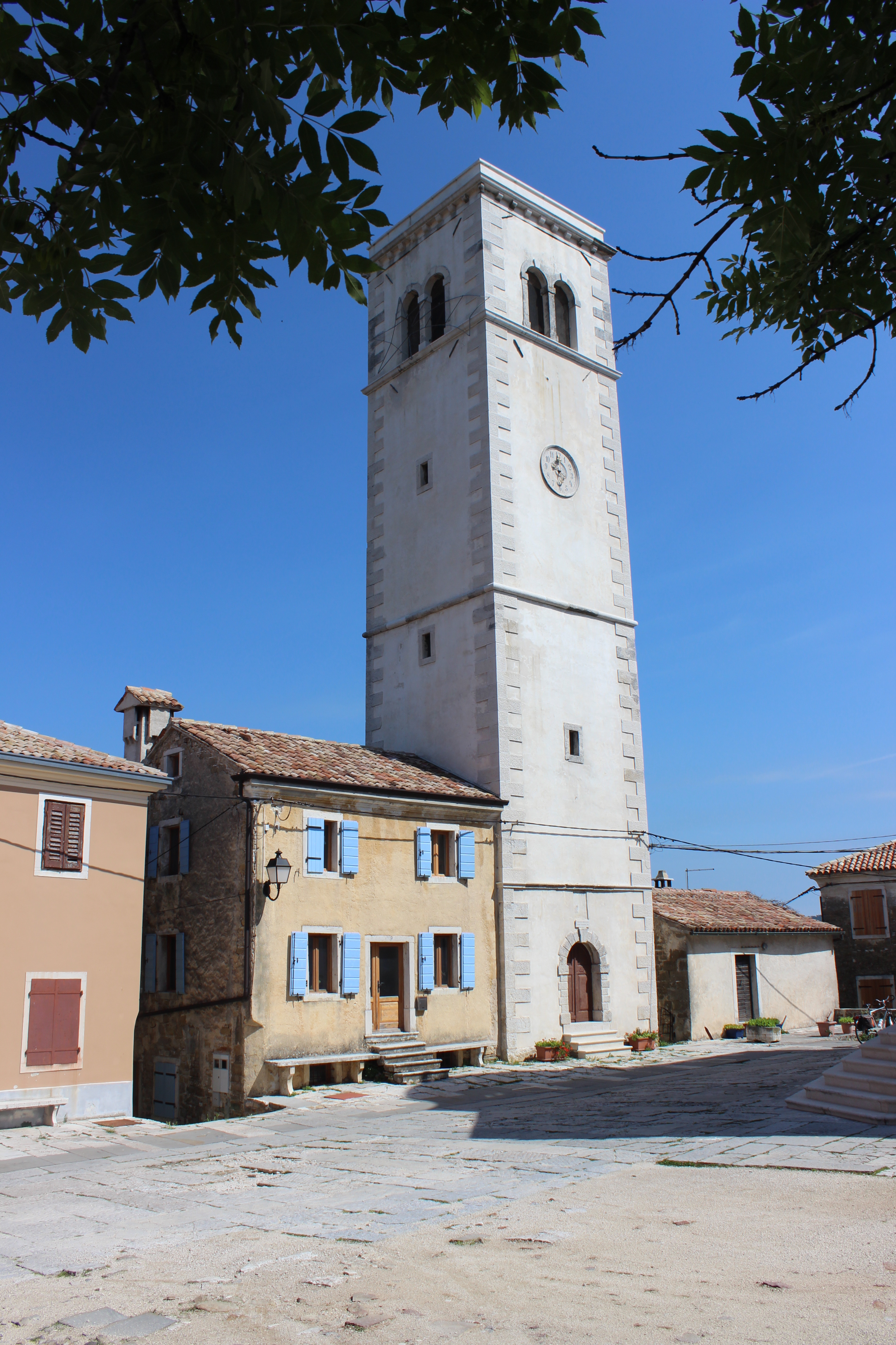 freestanding bell tower of the Church of St. George (Crkva Sveti Jurja), in Oprtalj, Croatia